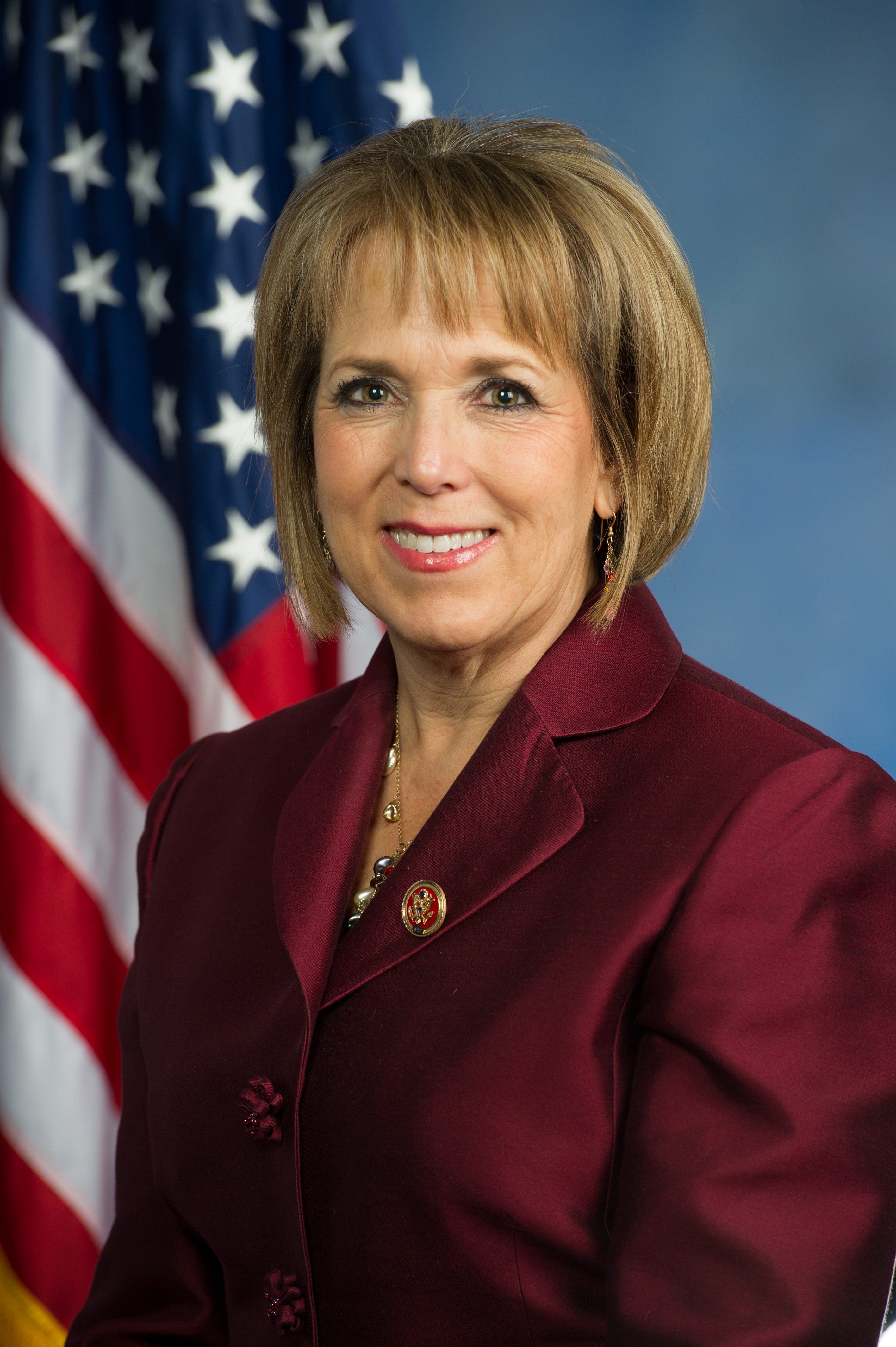 United States Congresswoman Michelle Lujan Grisham